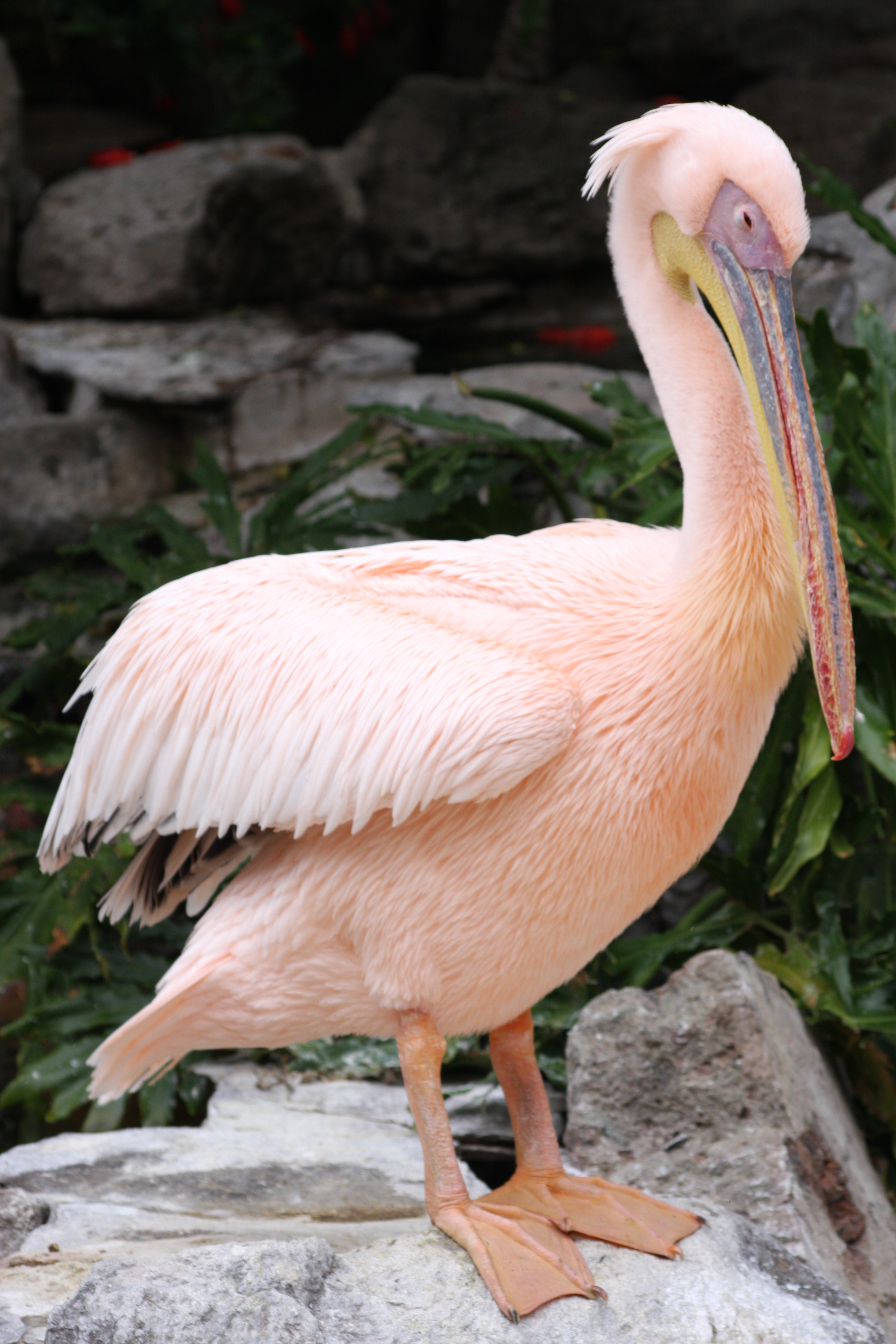 Pelecanus onocrotalus in the Palmitos park Zoo, Gran Canaria.